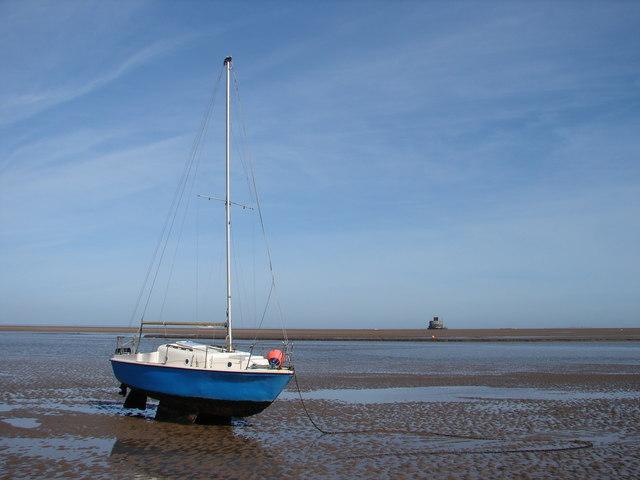 The advantage of twin keels This keelboat on the mudflats at Humberston Fitties will be lifted on the next high tide without having had to lie on its side.